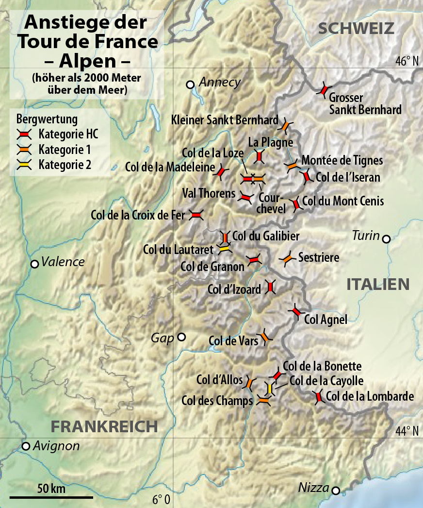 Map of the highest climbs of the Tour de France in the Alps. German version.